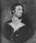 Tobias Furneaux, Royal Navy officer